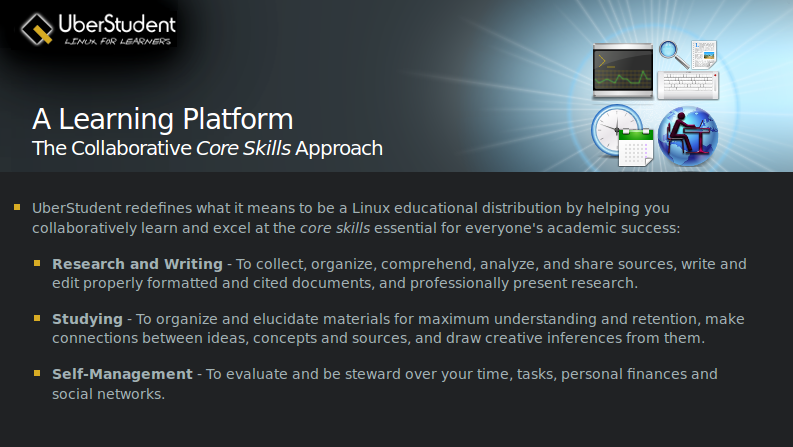 Screenshot from the UberStudent 1.0 Slideshow, indicating its "core academic skills approach."